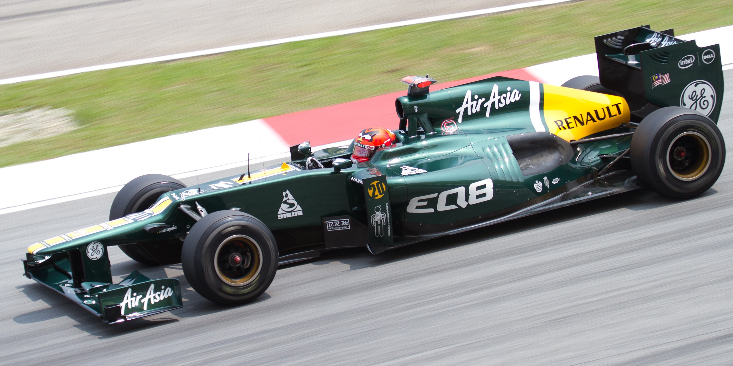 Formula One 2012 Rd.2 Malaysian GP: Heikki Kovalainen (Caterham) during the second practice session on Friday.